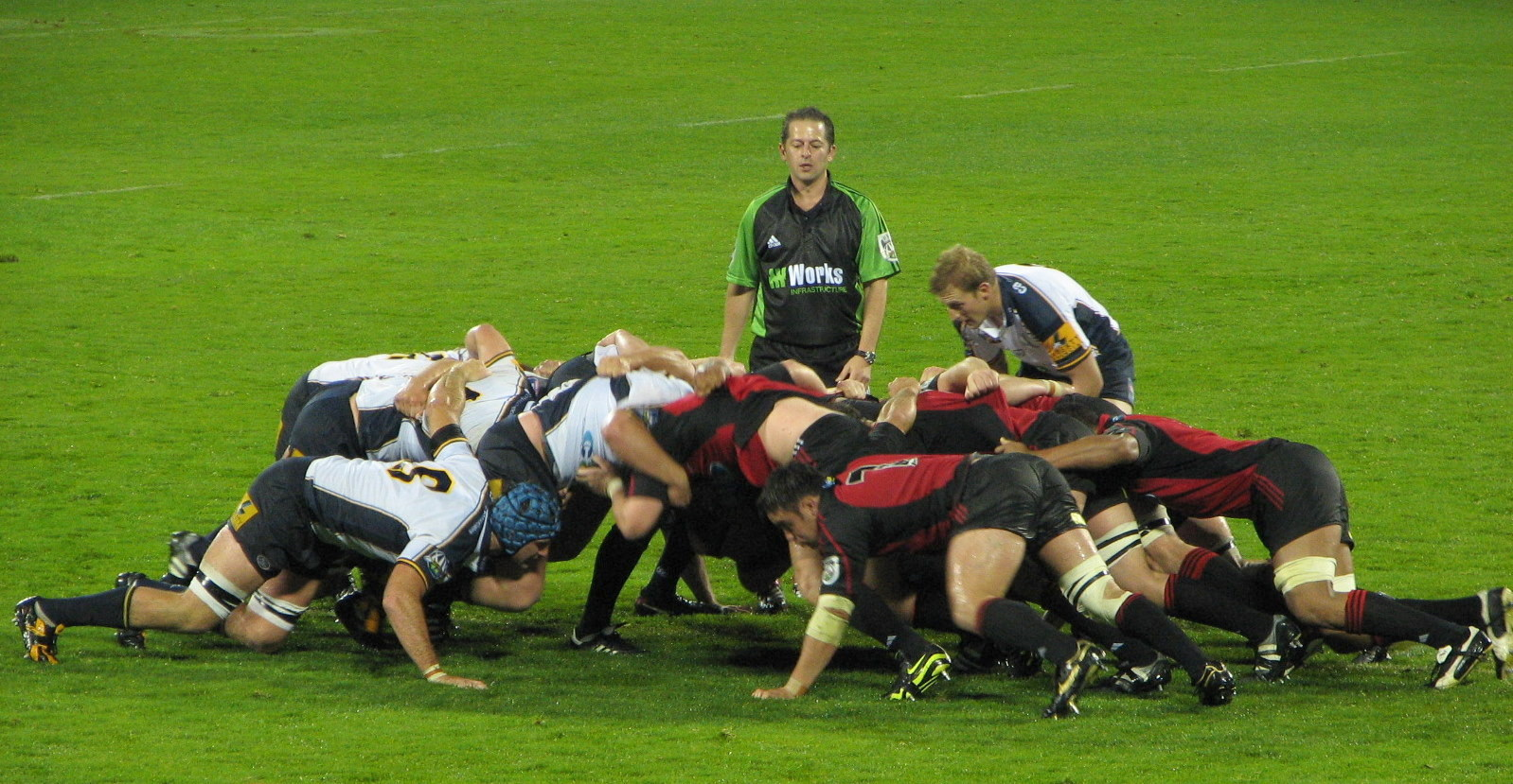 A scrum directed by the South African referee Jonathan Kaplan. Crusaders won 33-3